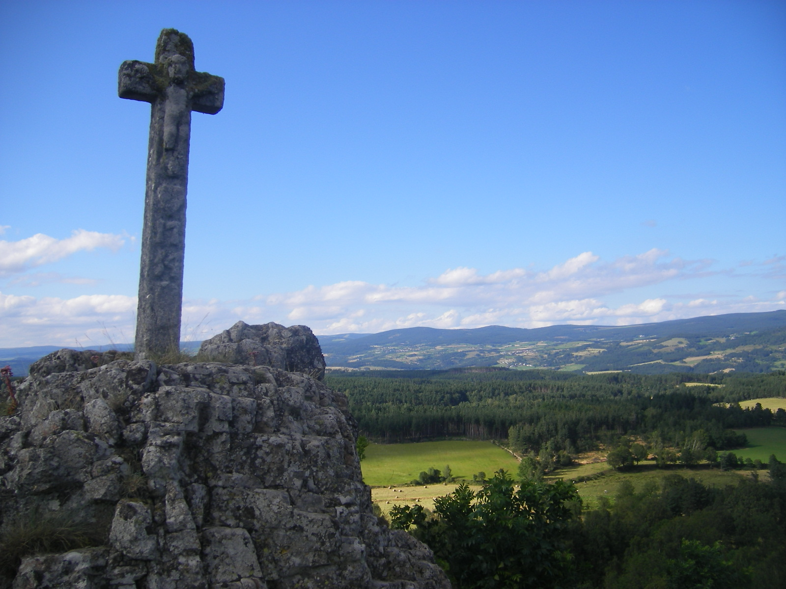 The Margeride mountains from Apcher (Prunières)